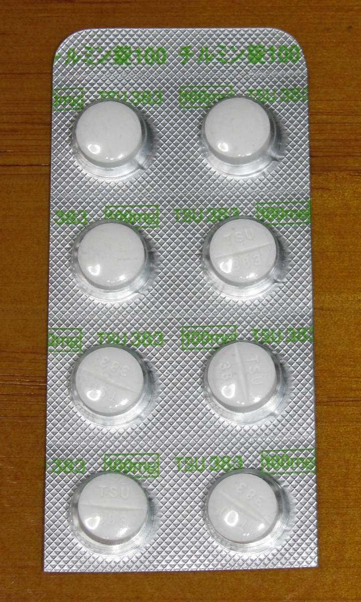 Theophylline extended-release tablets (generic drug) Cylmin Tablets 100 mg. Producted by Tsuruhara Pharmaceutical Co., Ltd., Osaka, Japan